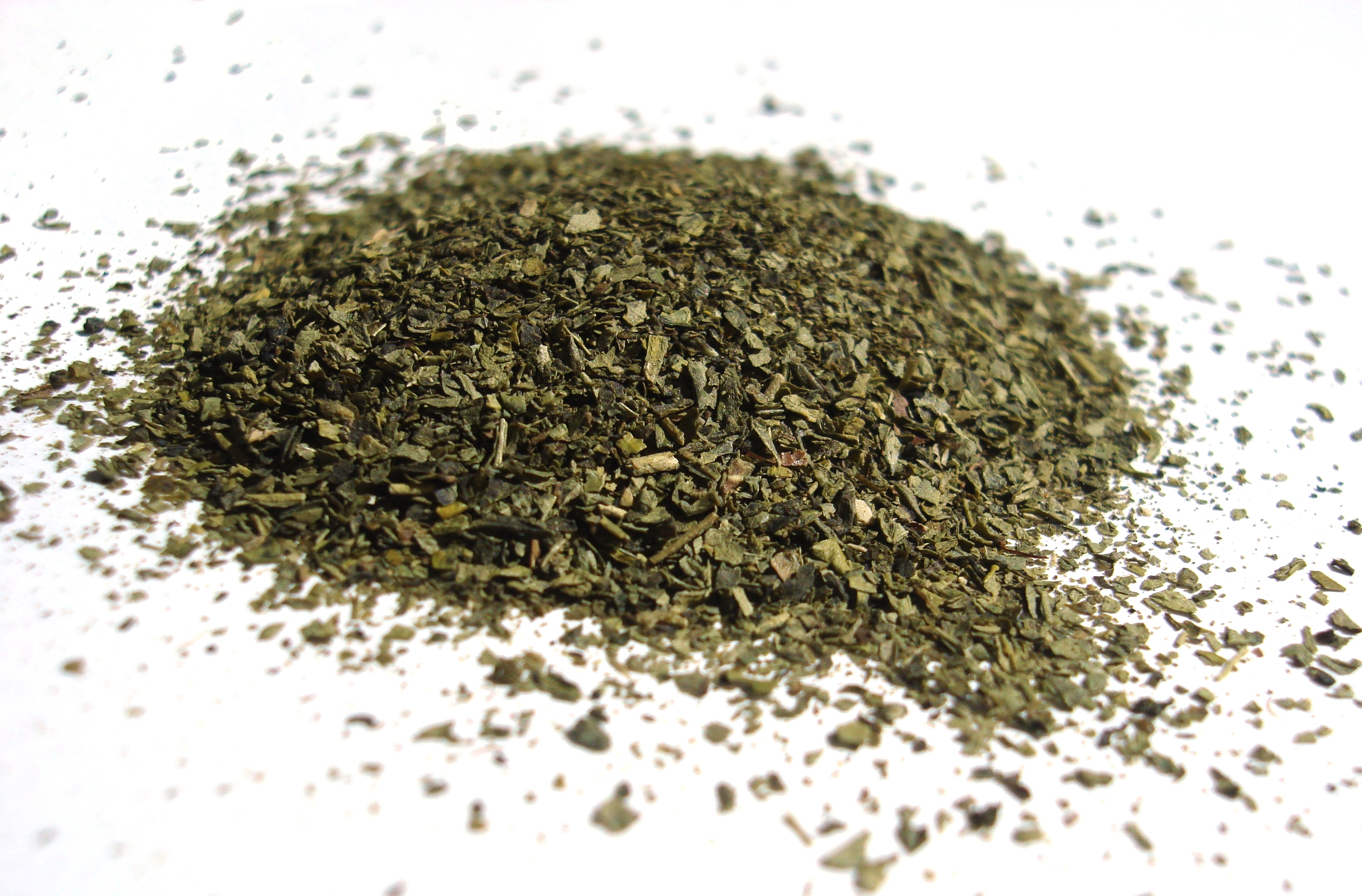 Green tea leaves, from a small teabag